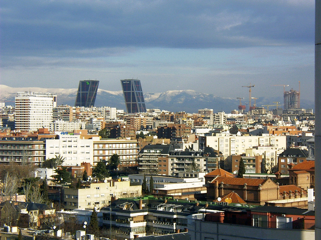 Partial view of Chamartín district in Madrid (Spain). In the background, Puerta de Europa inclined buildings (left) and CTBA business park under construction (right). Behind them, the Sierra de Guadarrama (land).